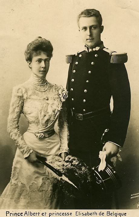 Albert I. von Belgien mit seiner Ehefrau, Herzogin Elisabeth von Bayern